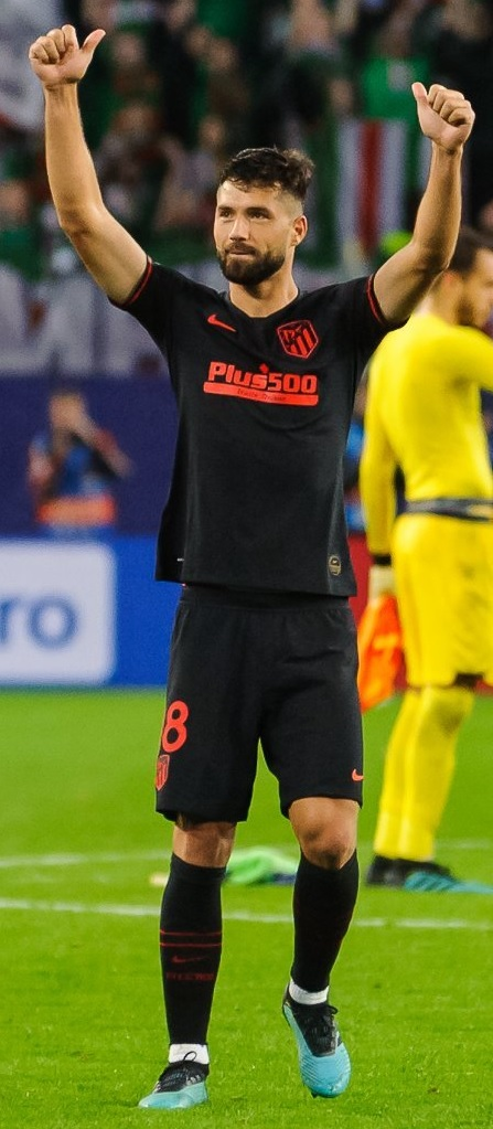 Felipe celebrating the victory of Atlético Madrid over FC Lokomotiv Moscow in a Champions League match.